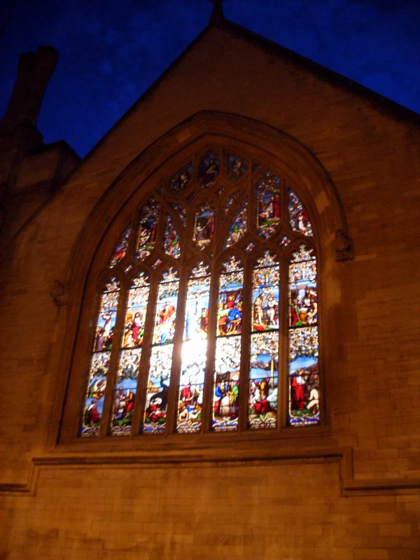 The stained glass (by George Hedgeland, added in 1853) in the east window (added 1636) of the chapel of Jesus College, Oxford